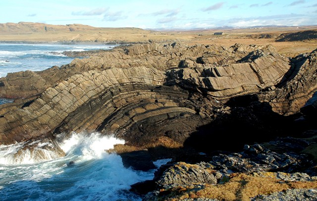 Ancient folds in ancient rocks of the Smaull Greywacke Formation, part of the Colonsay Group, being battered by the waves at Campa on Islay, Scotland. The rocks are of Neoproterozoic age.